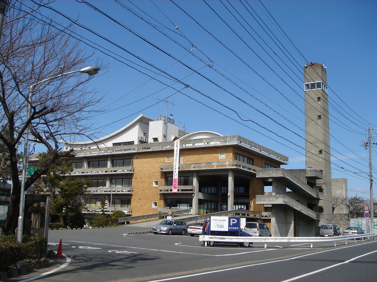 Hashima City Hall in Gifu Preferture, Japan